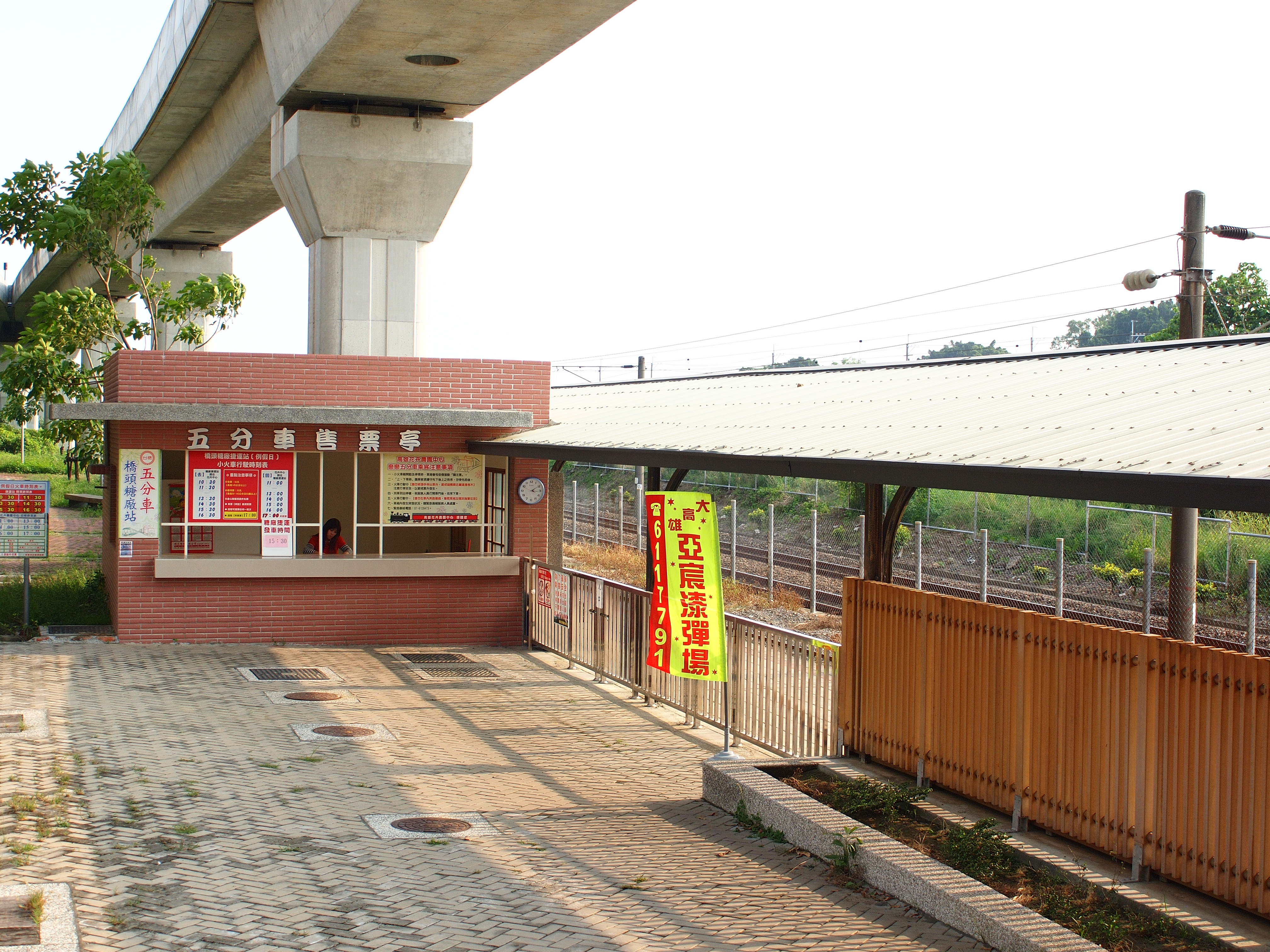 Ciatou Sugar Factory